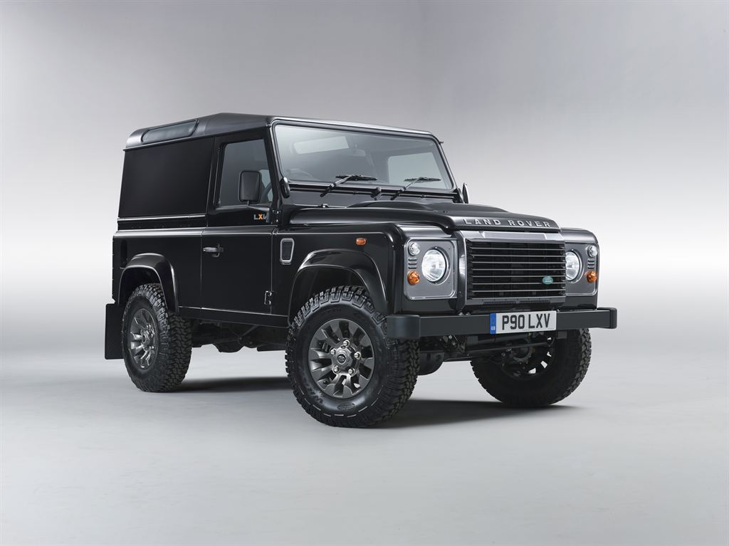 Debut of the Special Edition Land Rover Defender LXV to commemorate Land Rover’s 65 years of proud heritage. The LXV features 16-inch Sawtooth alloy wheels and is available in Santorini Black or Fuji White.